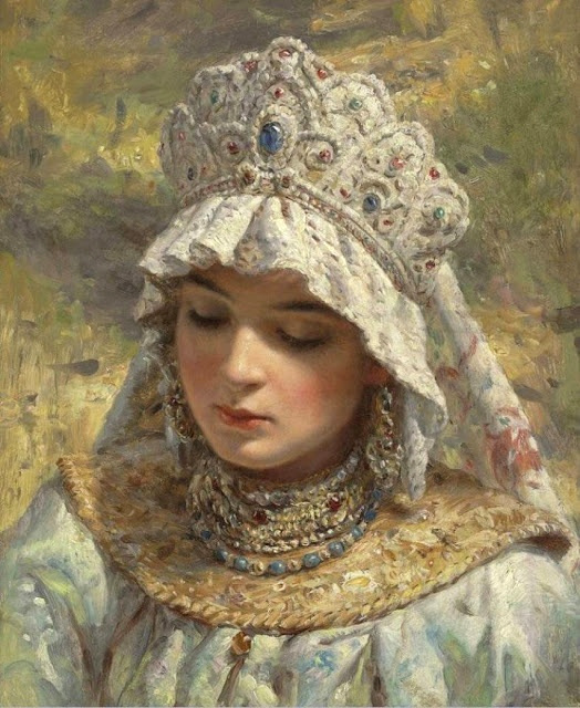 "Russian beauty" Wearing a Kokoshnik by Konstantin Egorovič Makovskij, beginning of the 1880s